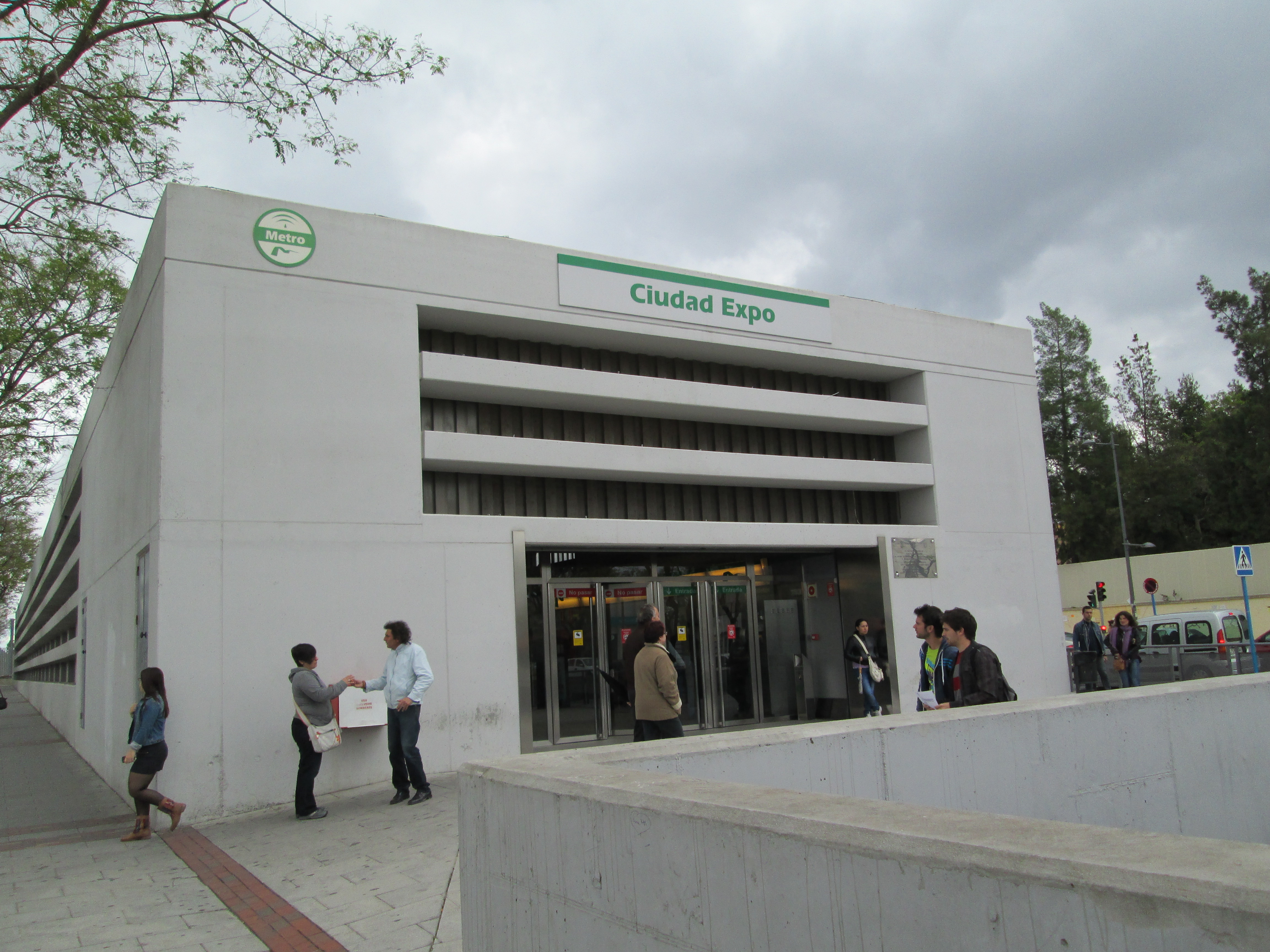 Mairena del Aljarafe